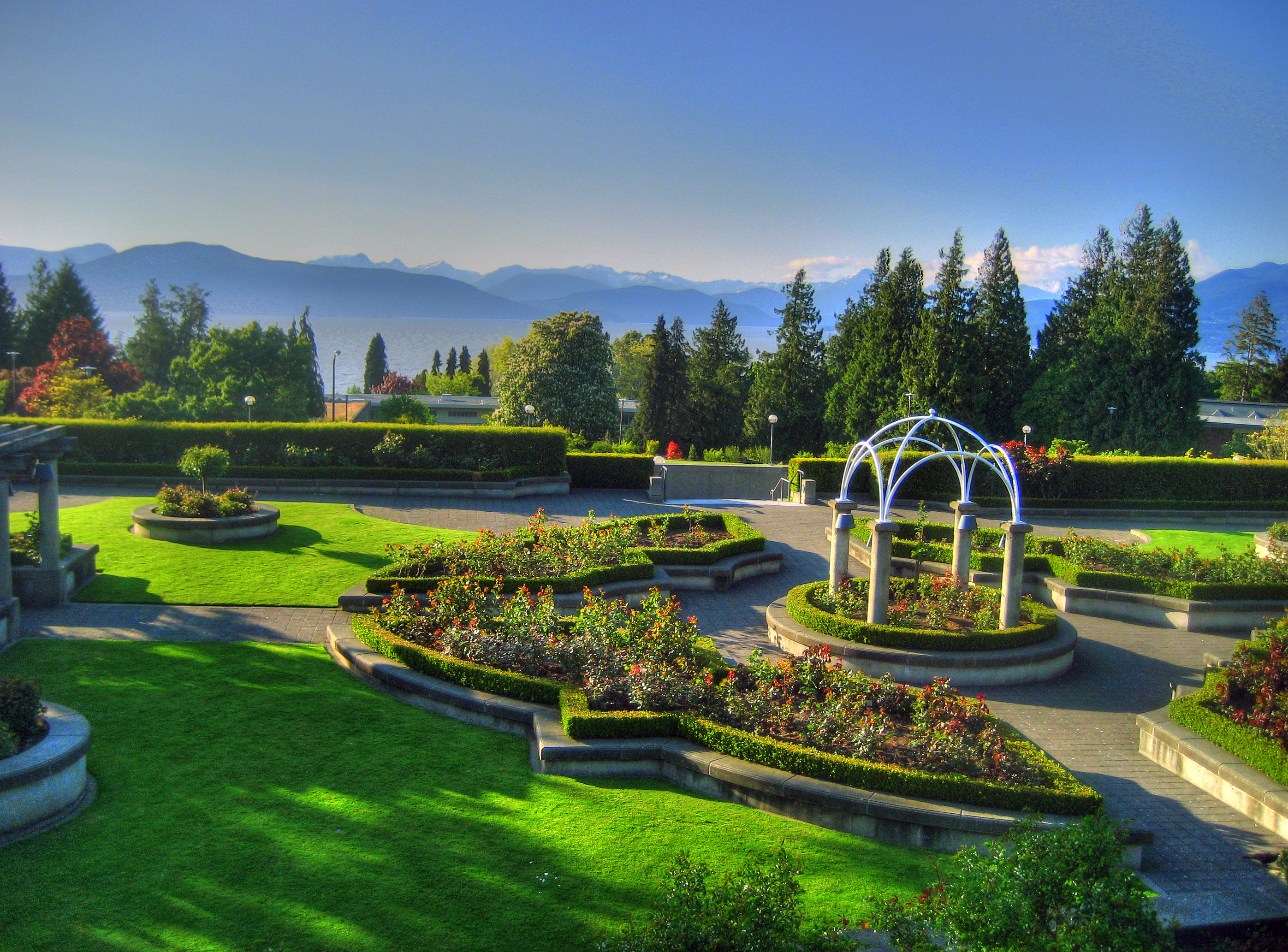 Picture of the UBC Rose Garden.